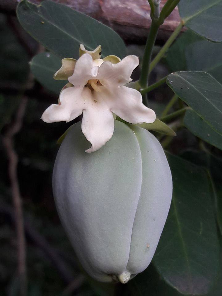 Araujia sericifera Brot. - Honeydew, Western Johannesburg, South Africa